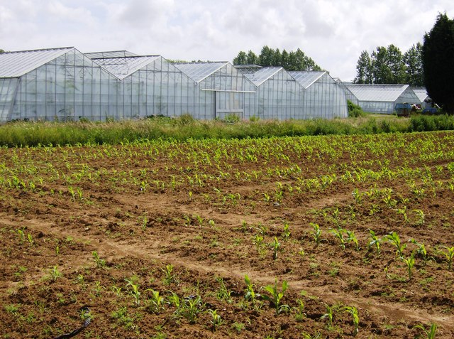 Greenhouses at Great Budbridge Manor Just some of the extensive greenhouses, with acres of crops being grown outside as well.